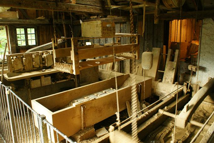 Open-air-museum Glentleiten, Bavaria, Germany. Stonemill interior view